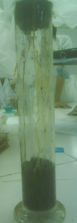 Winogradsky column after a month